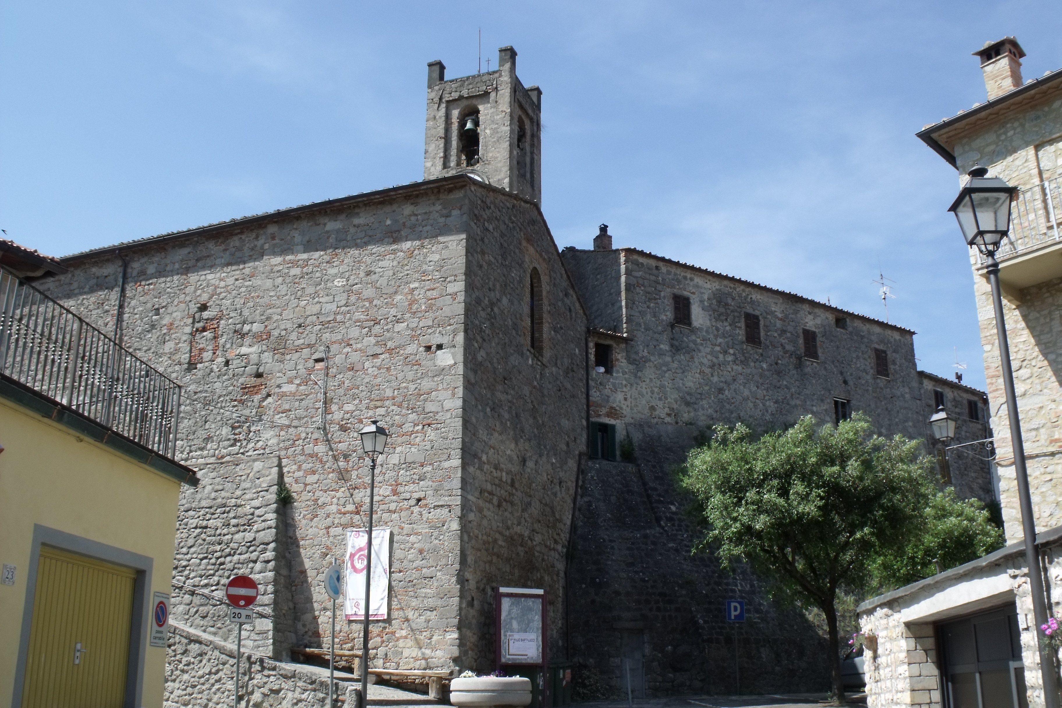 Church Chiesa di San Giovanni Batista in Torniella, Hamlet of Roccastrada, Maremma, Province of Grosseto, Tuscany, Italy